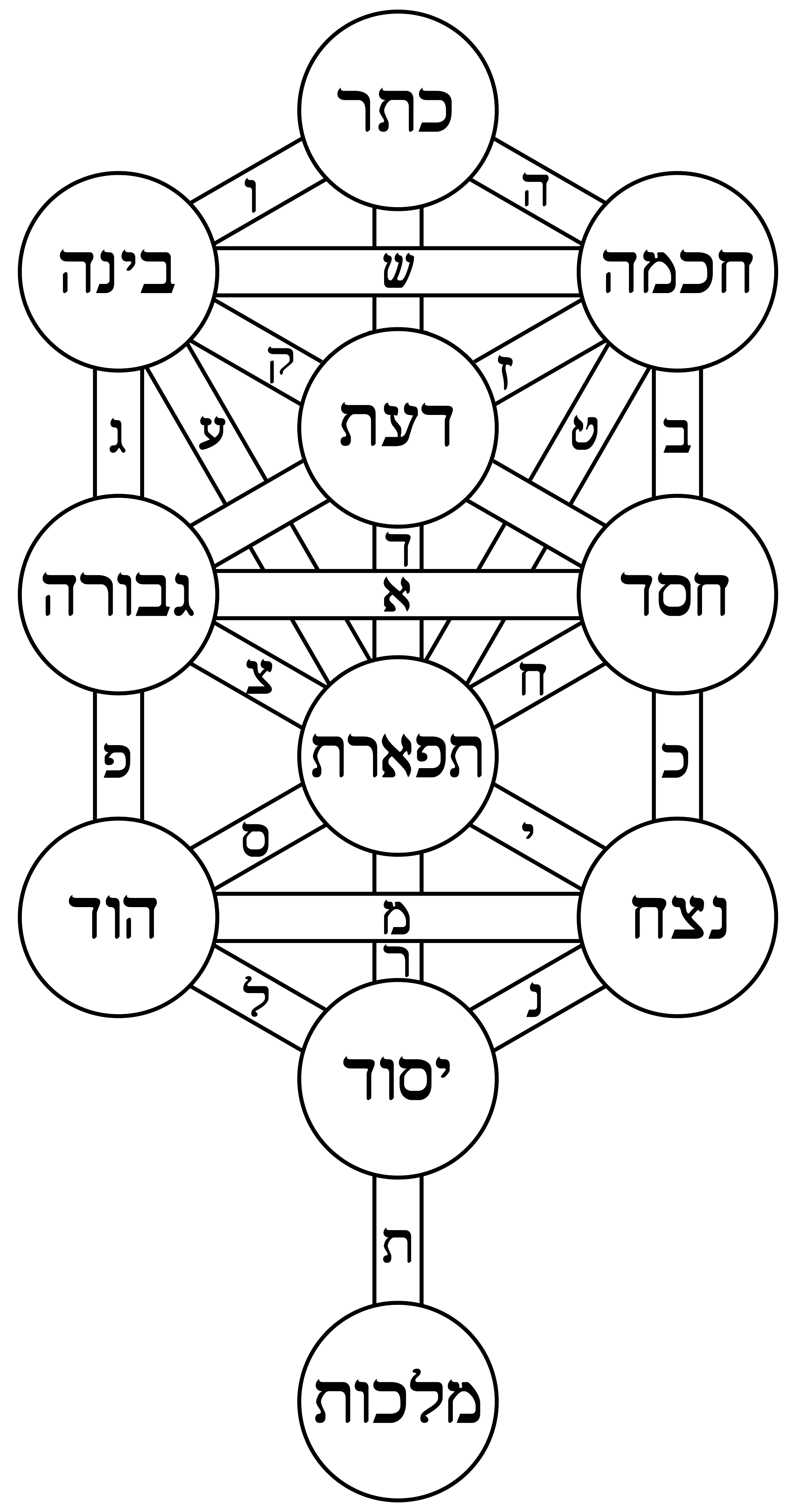 The Kabbalistic Tree of Life with the names of the Sephiroth and paths in Hebrew.